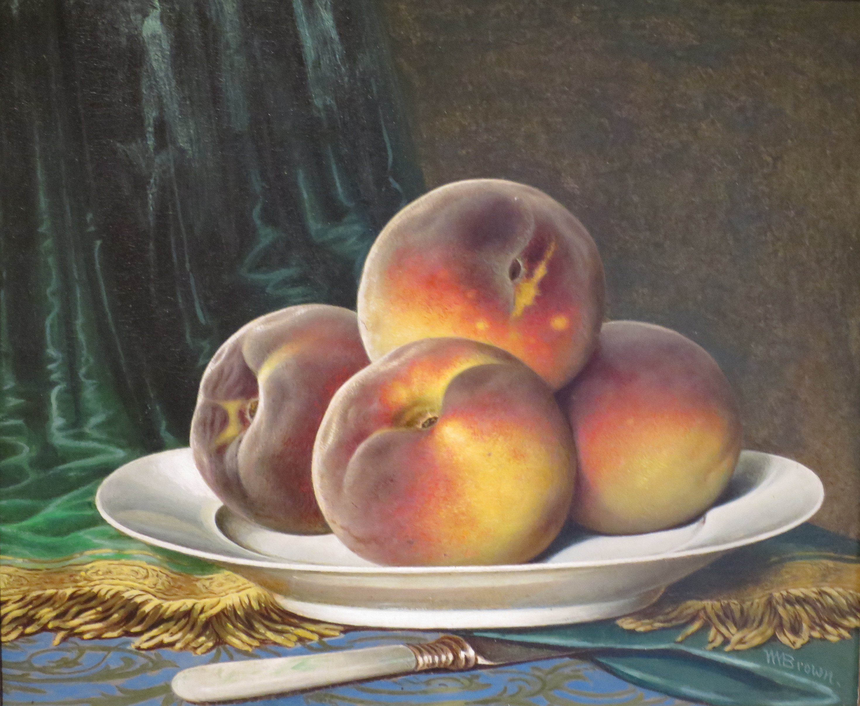 William Mason Brown - Peaches on a White Plate, gouache, oil and tempera on paper, c. 1880, High Museum of Art